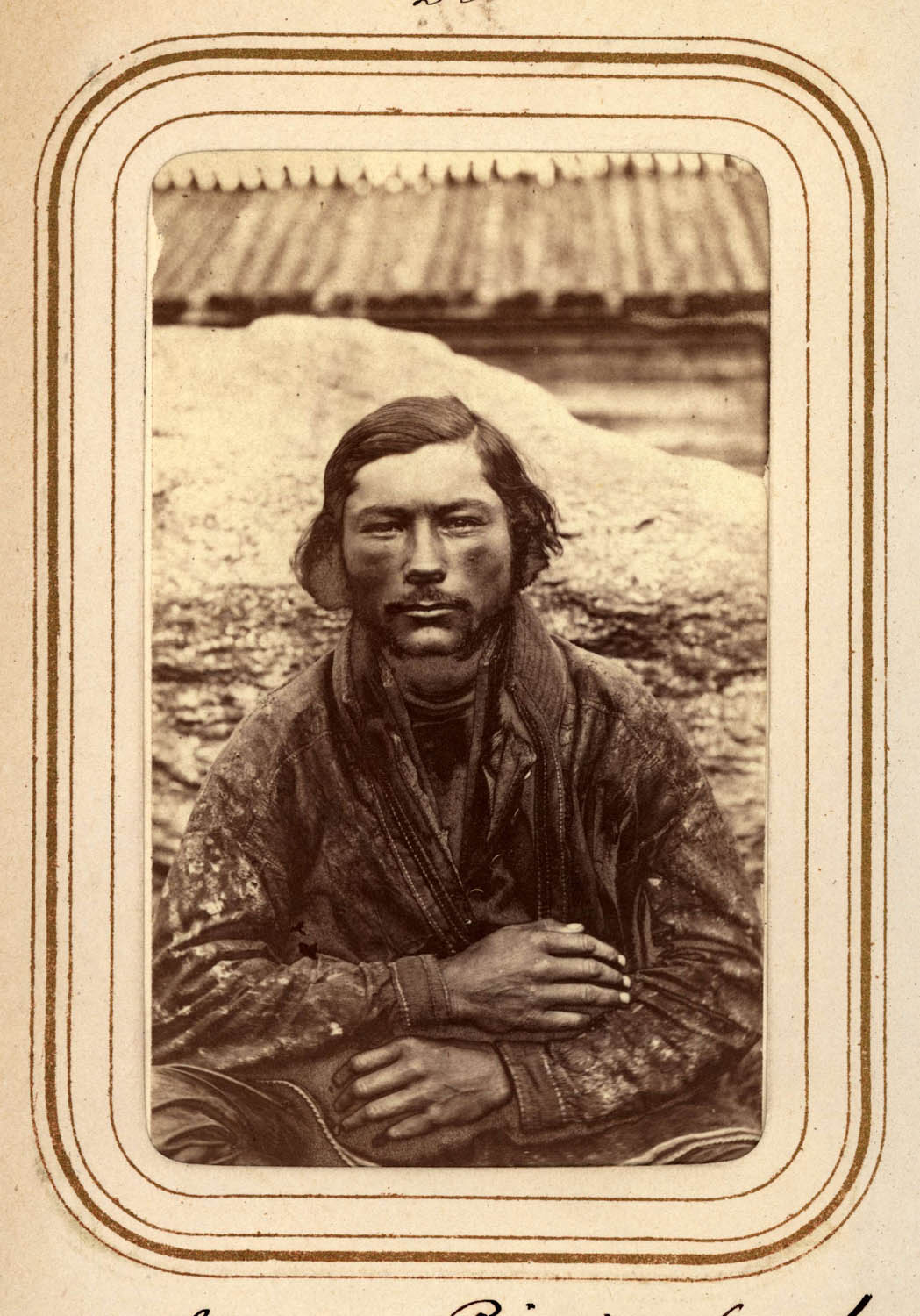 Depicted person: Amma Larsson Pirkit; Pirkit-Amma